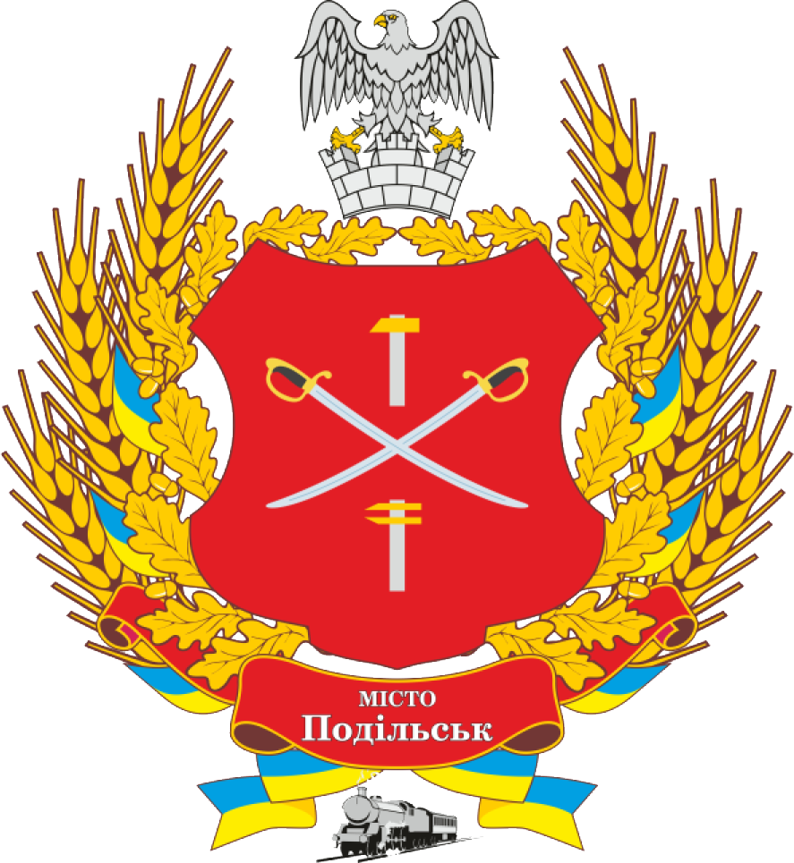 The coat of arms of the City of Podilsk, Odessa Oblast, Ukraine